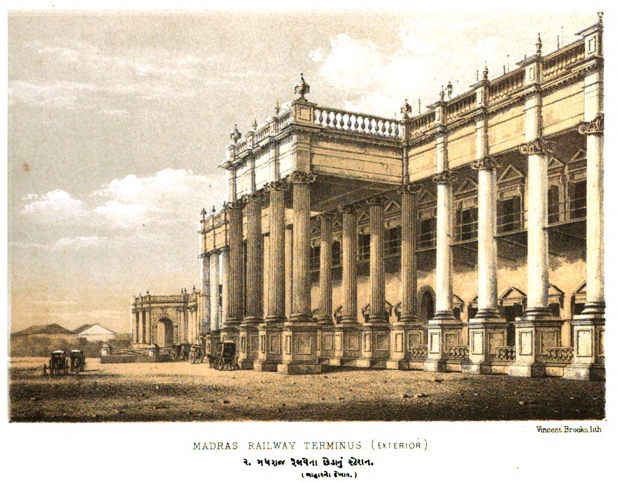 Madras Railway station in 1871